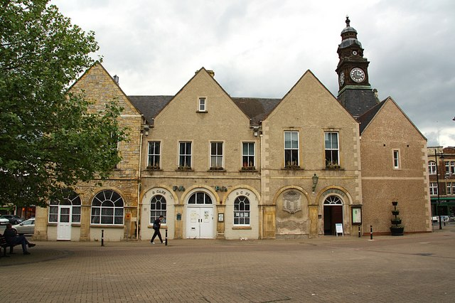 Evesham town hall. 16th century origins and 19th century additions, including the cupola